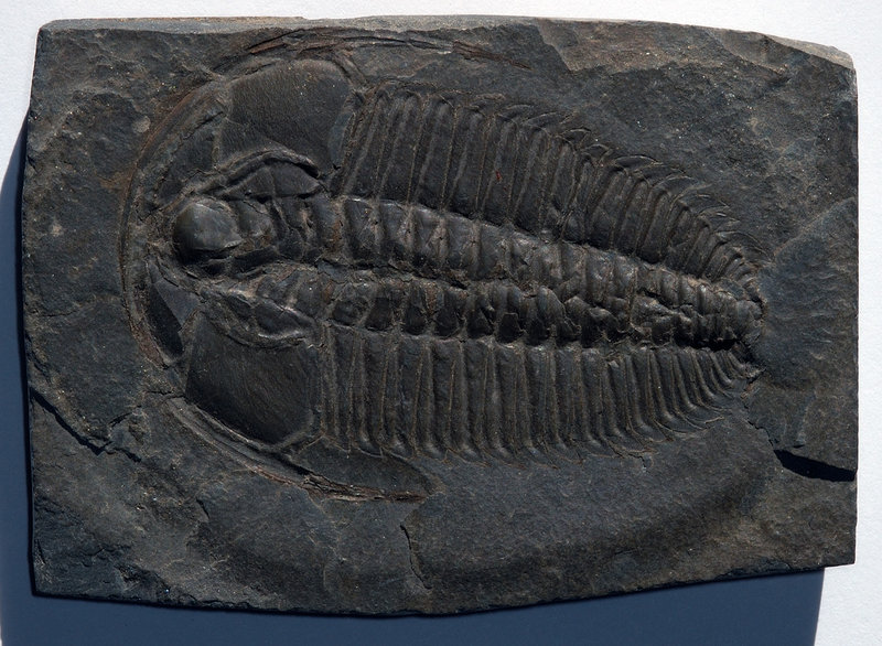 Photograph of a fossil trilobite Redlichia chinensis taken by Dlloyd. Specimen is from the Cambrian and measures 7.5 cm (3") in length, on matrix. Locality - Yung Shan, Hunan Province, China.